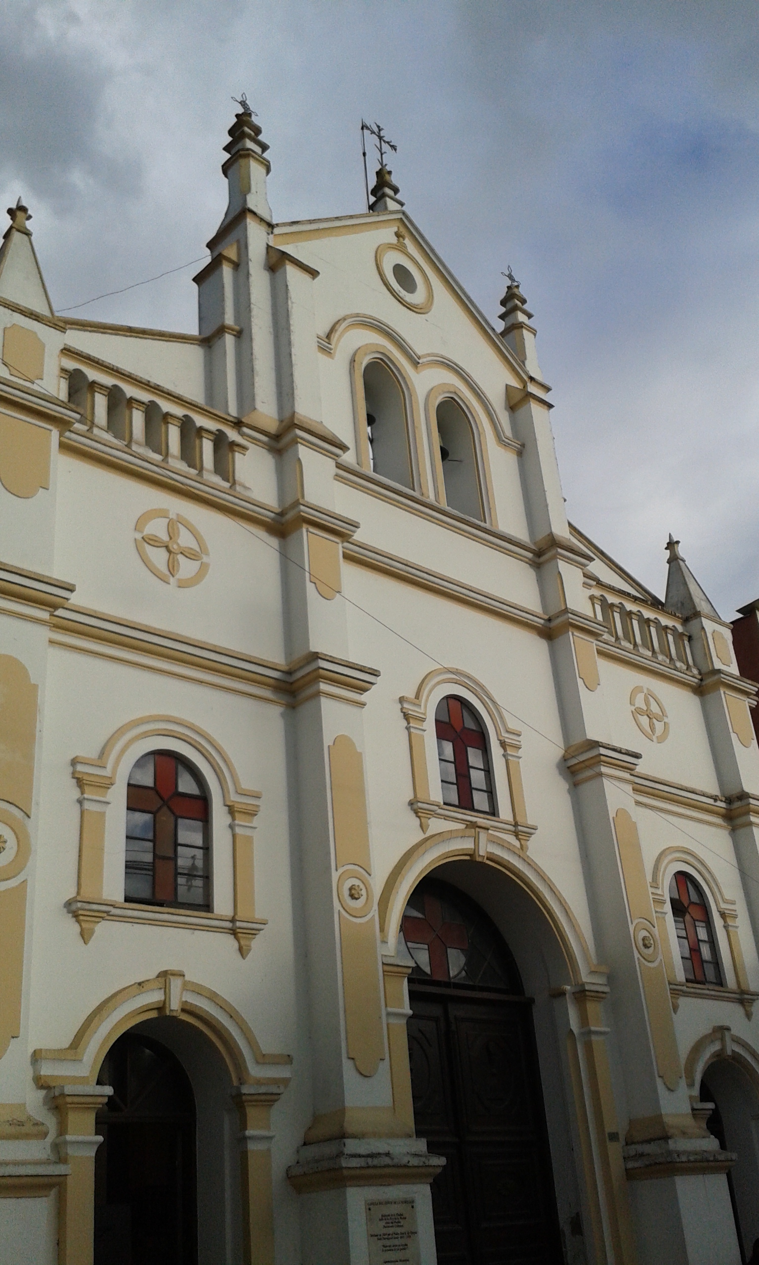 Capilla De